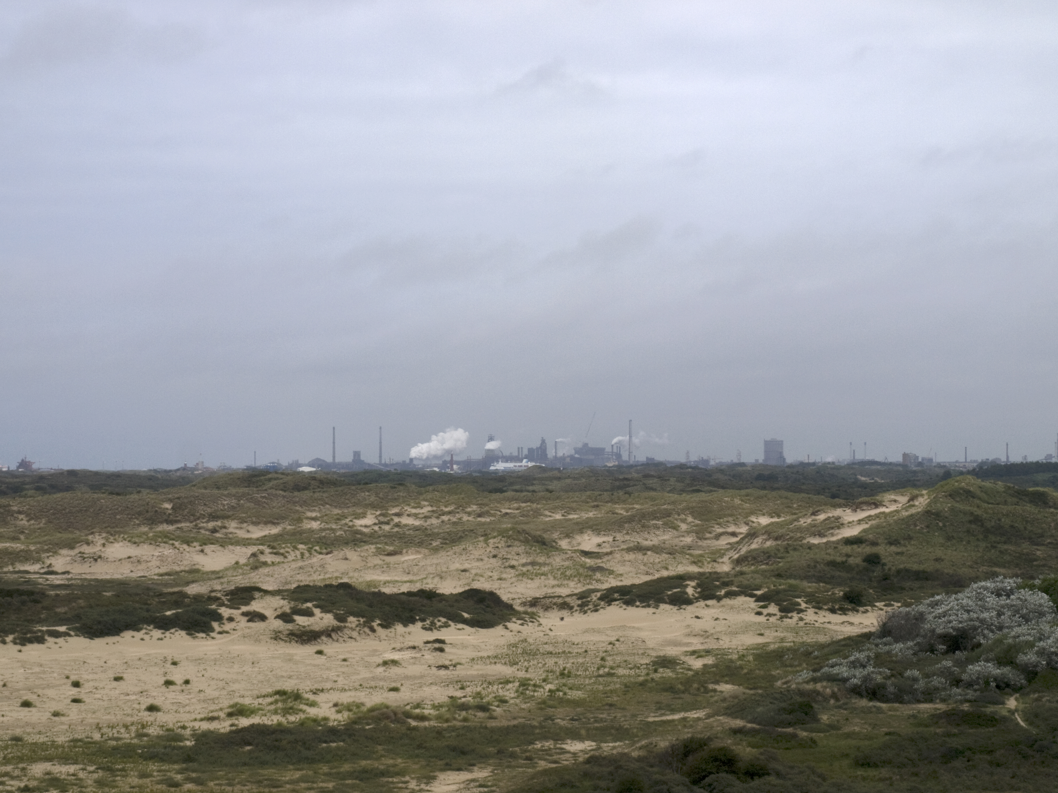 NP Zuid-Kennemerland, sand dunes. At the background is the metallurgy plant in Ijmuiden.